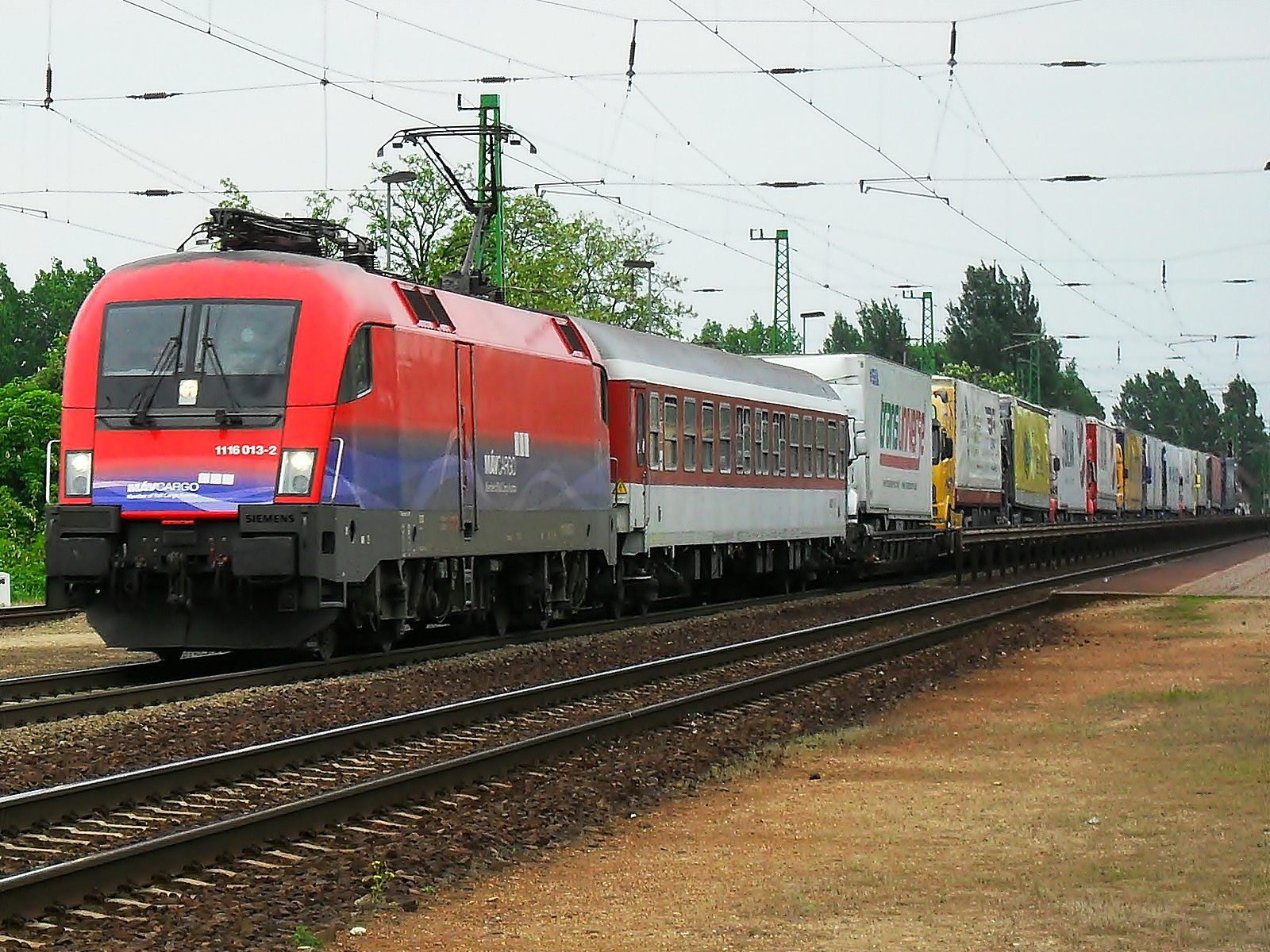 MÁVCARGO Ro-La in Üllő